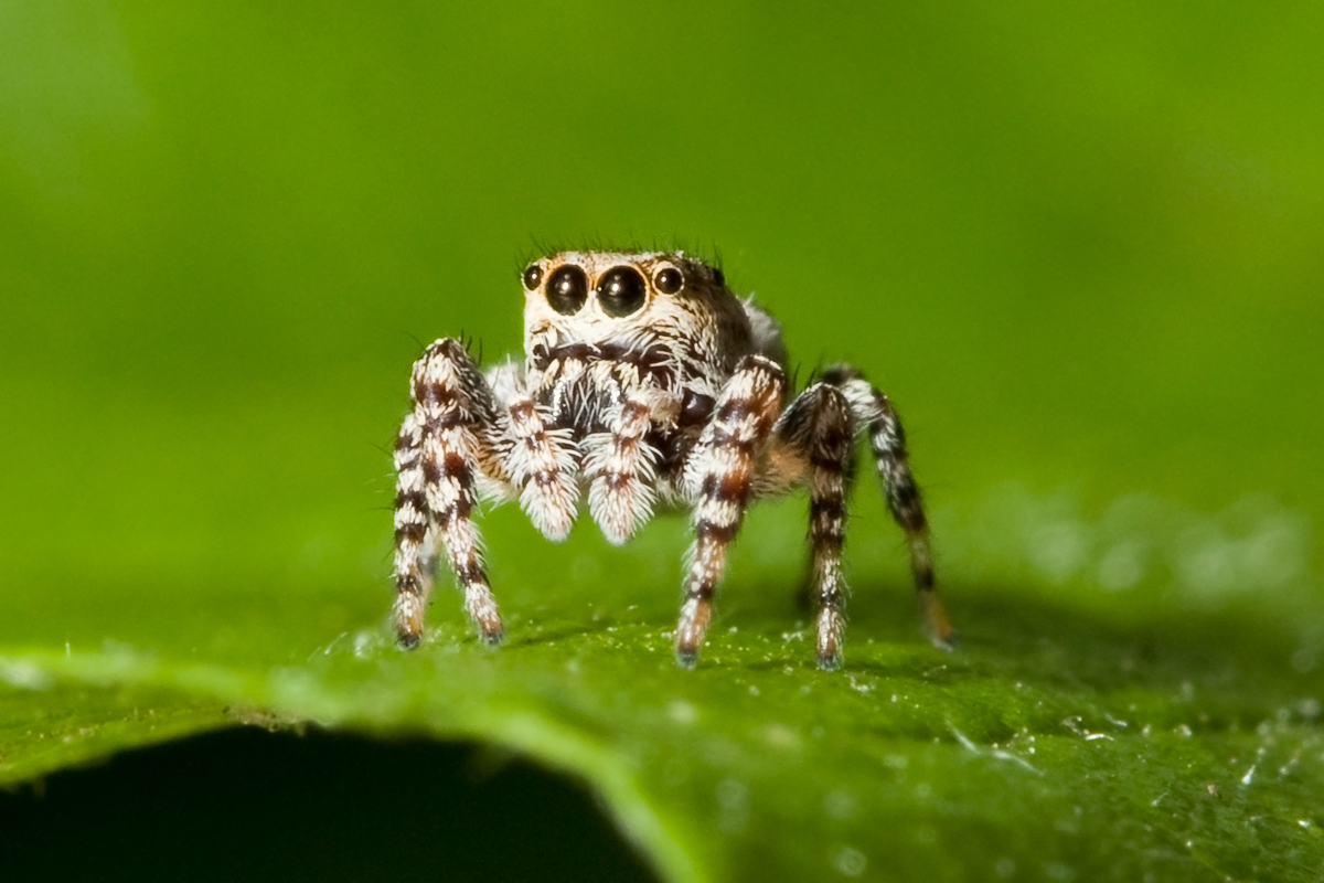 Peppered jumper (Pelegrina galathea) (female) at Shelby Park in Nashville, Tennessee. Body length: 4.5 mm.